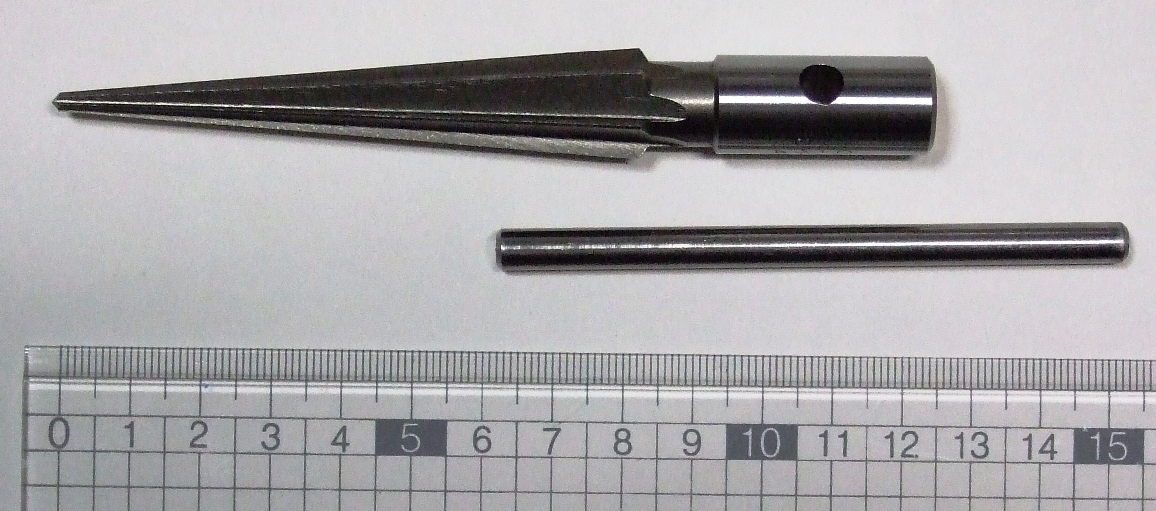 Taper reamer (removed the handle) (K-442. Applicability: 3 - 16 mmø. Made by Hozan Tool Industrial Co., Ltd. Osaka, Japan)